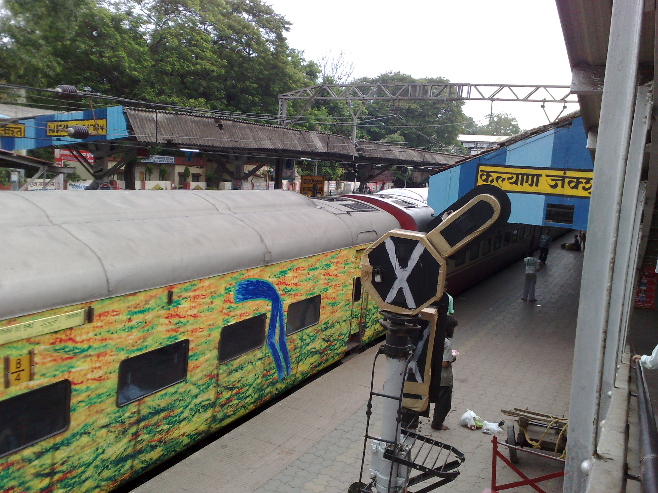 12294 Allahabad Duronto Express passing Kalyan Junction